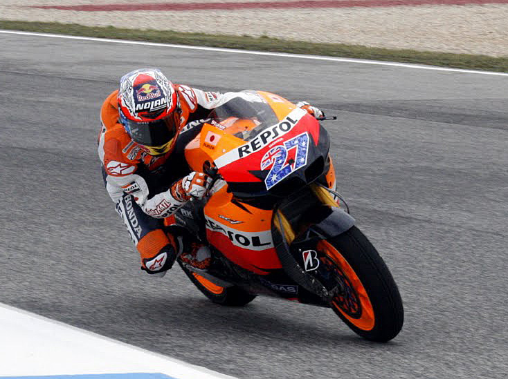 Casey Stoner 2011 Estoril